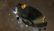 This shows NASA's design for a hypothetical robotic probe designed to explore other star systems.